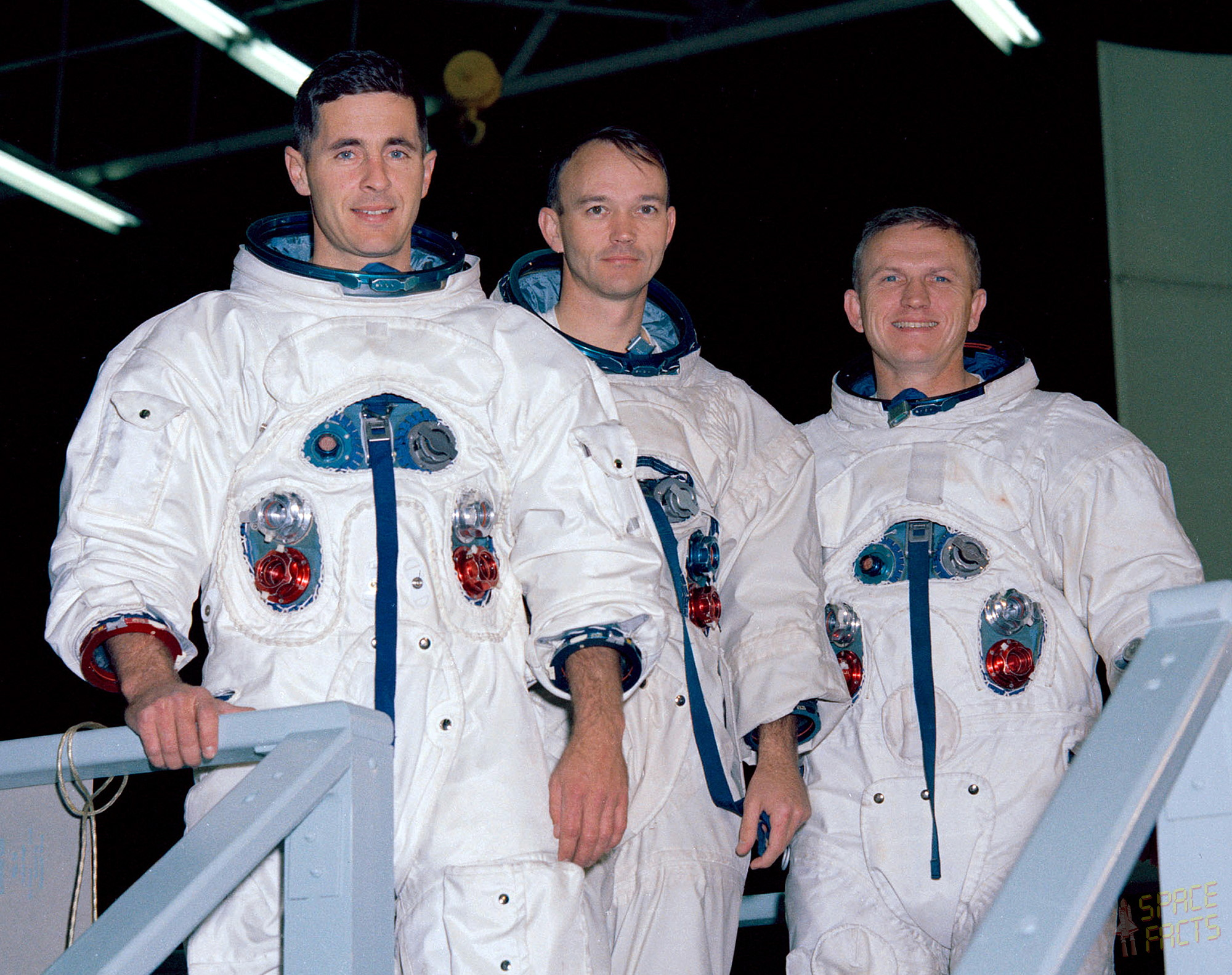 From left, Anders, Collins, and Borman, the prime crew of the cancelled Apollo 503 mission.